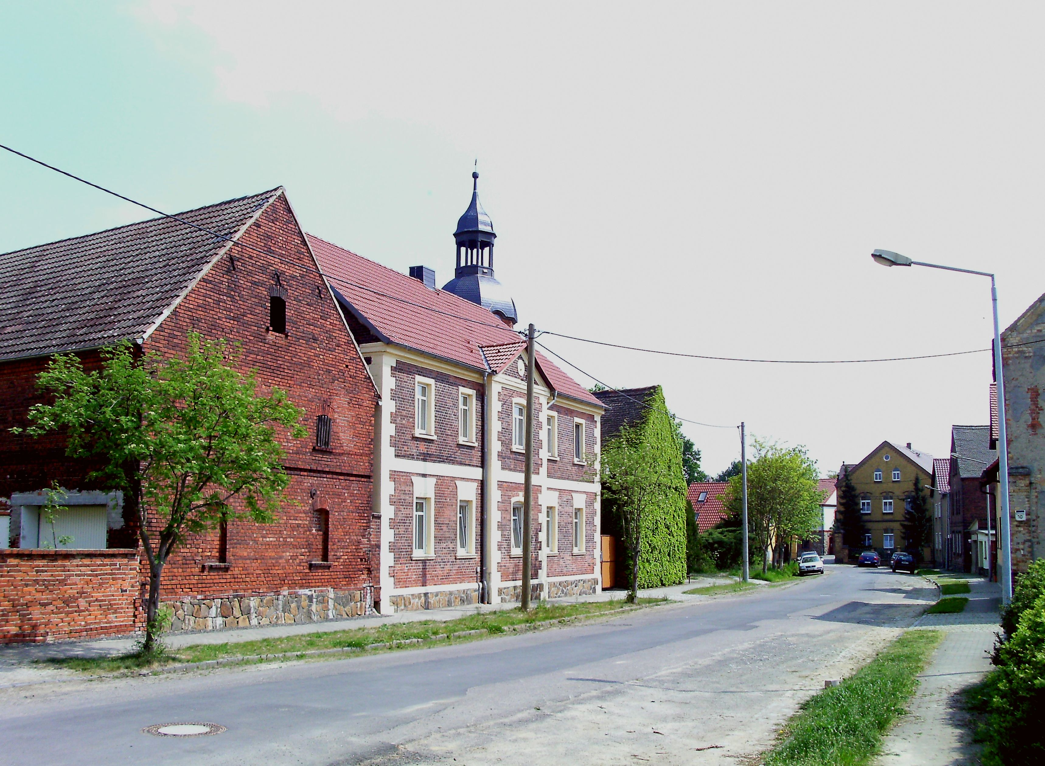 Im Dorf in Rödgen (Zschepplin, Nordsachsen district, Saxony)